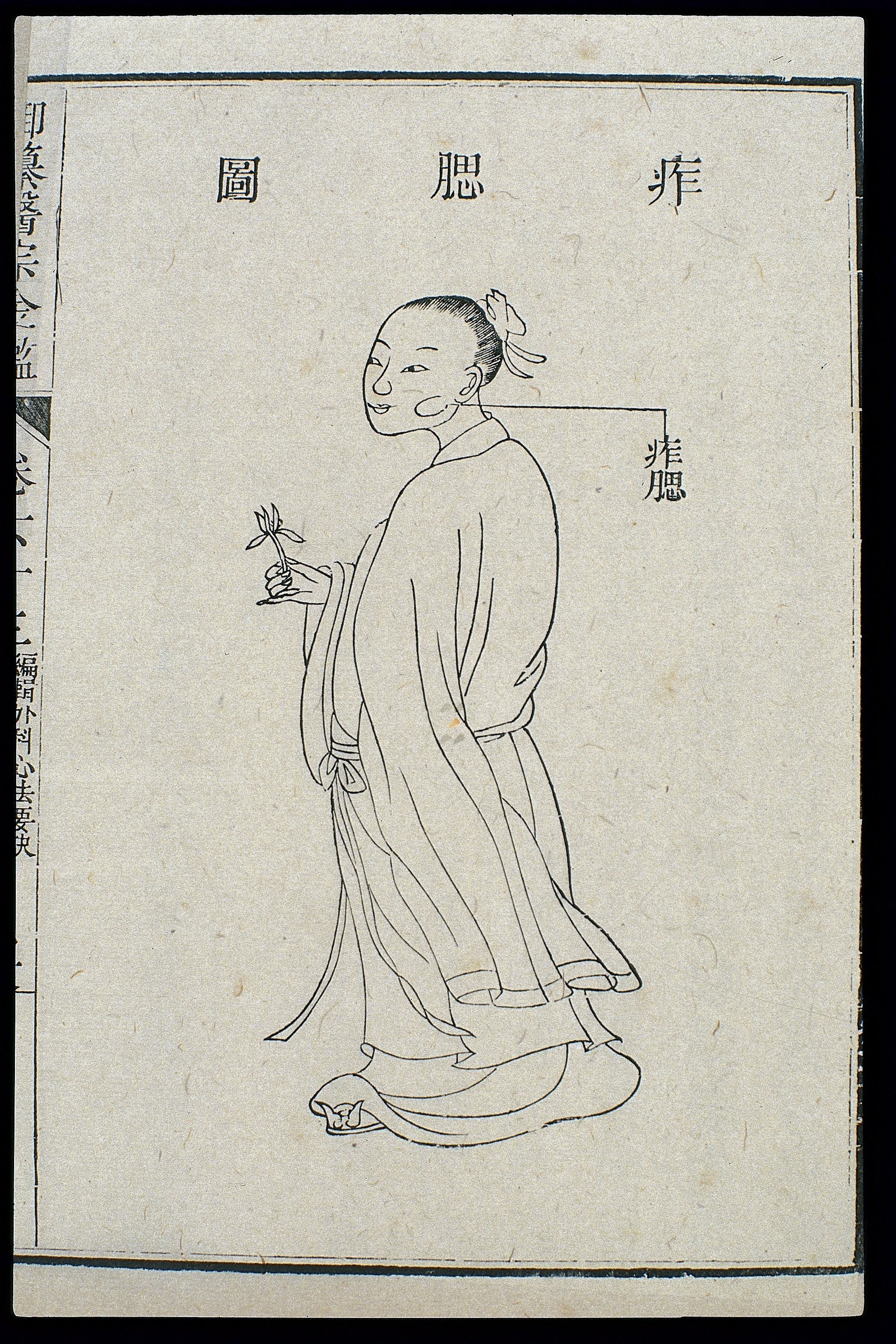 Early 18th-century Chinese woodcut illustrating mumps (zhasai), fromYizong jinjian: Waike xinfa(The Golden Mirror Of Medicine: Essential Knowledge and Secrets of External Medicine).A medical anthology in 90 juan (volumes/fascicles),Yizong jinjianwas executed as an imperial commission by Wu Qian (Qing period, 1644-1911) et al., and printed in Beijing at Wuyingdian (the Hall of Martial Prowess - the imperial printing house) in 1742 (7th year of the Qianlong reign period of the Qing dynasty).Waike xinfais one of 15 monographs included in the anthology. It is a systematic treatise on Chinese external medicine in 16 volumes. It covers the system of channel (meridians), ulcers and abscesses (yongju), and the treatment of external conditions of various parts of the body.It contains 266 illustrations. Woodcut